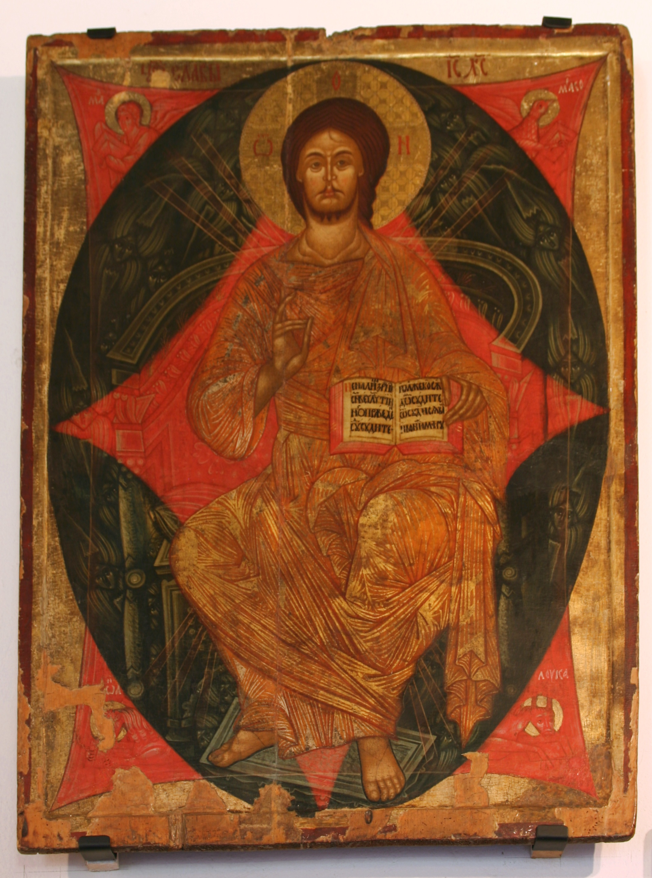 Jesus Christ Pantocrator - an icon, Historic Museum in Sanok, Poland